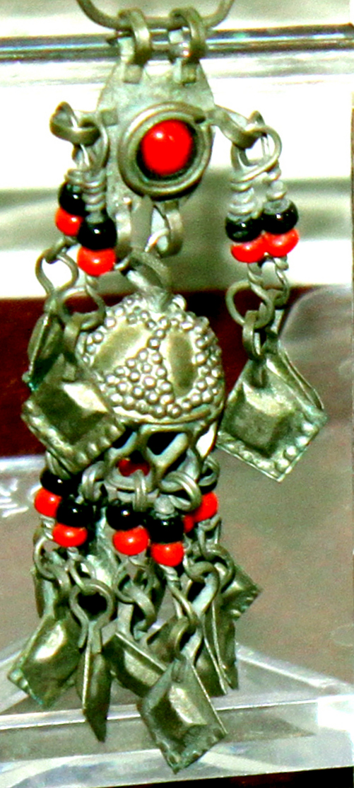 Gümüş sancaq, Mingəçevir, e.ə. I minillik, Qafqaz Albaniyası